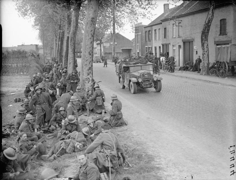 The British Army in France and Belgium 1940 A Morris-Commercial CS8 15cwt truck passes a group of Belgian troops resting by the roadside in Louvain, 14 May 1940.